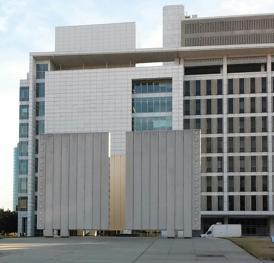 This John F. Kennedy memorial is located in downtown Dallas